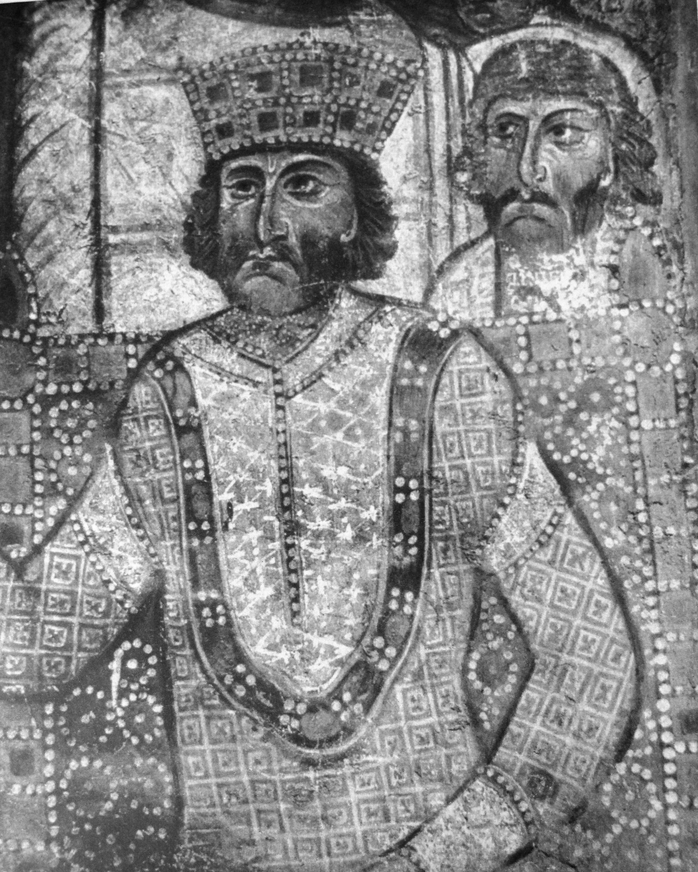 Emperor Diocletianus interrogating St. George. A fragment of the fresco from Nakipari monastery, Svaneti, Georgia